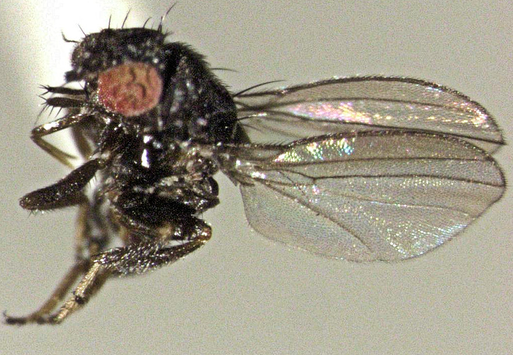 adult Paramyia sp.